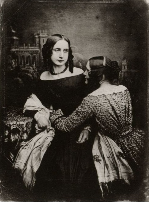 Frau von Braunschweig und Frau C.F. Stelzner